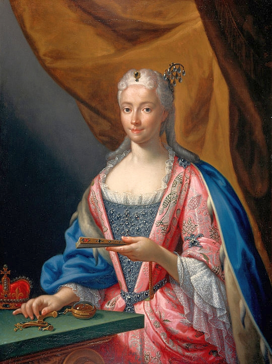 Portrait of Maria Clementina Sobieska.